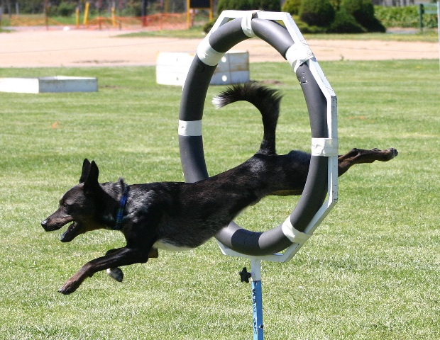 Koolie-blue merle-smooth coat-In agility